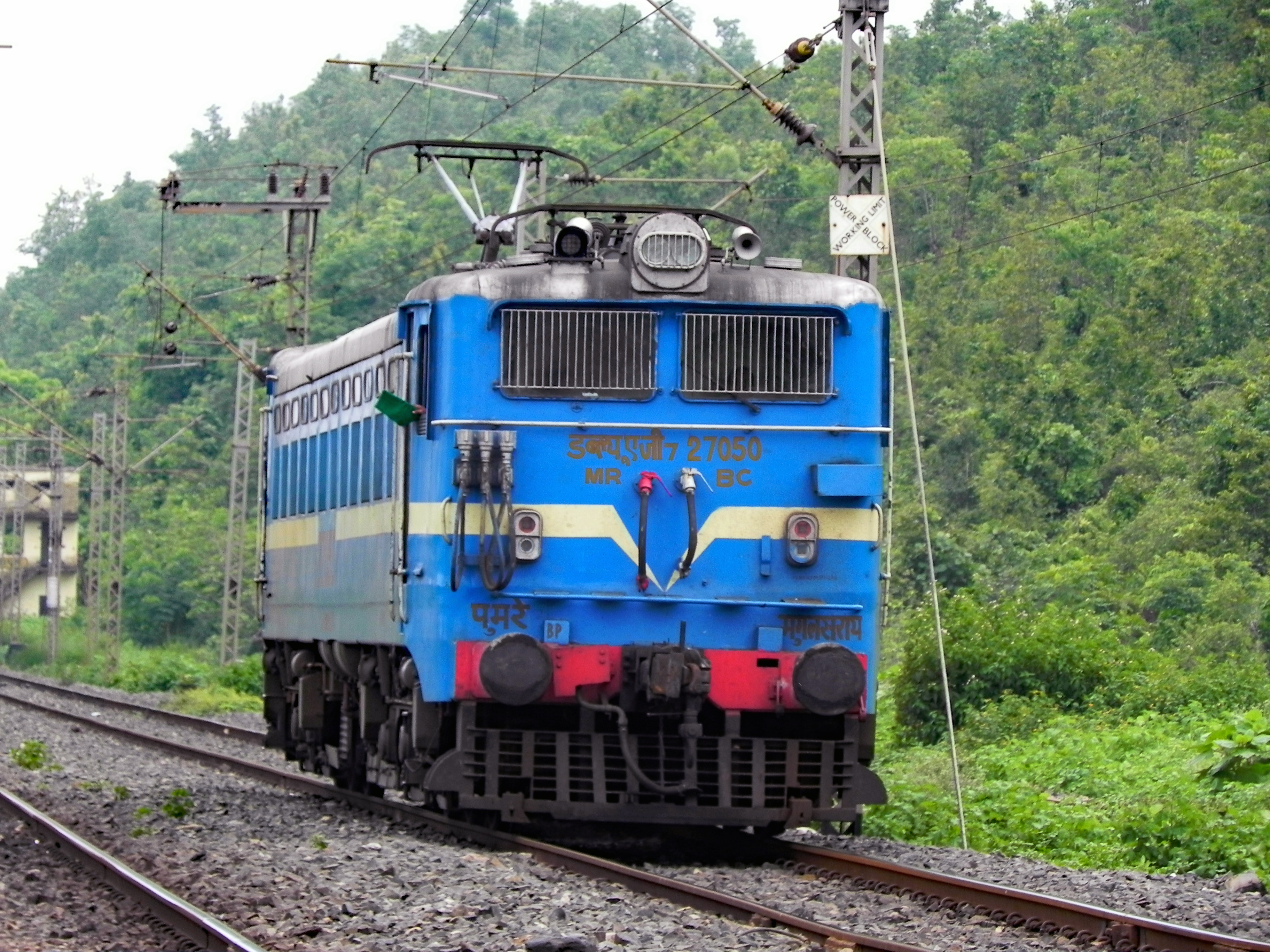 MGS based WAG-7 loco - 27050 is running light towards Gurpa to perform its next banking duty !!